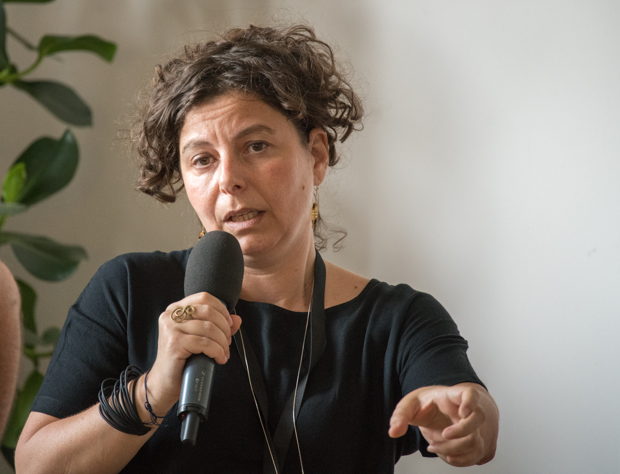 Elli Papakonstantinou at 'Festival der Regionen 2019', Perg - Austria